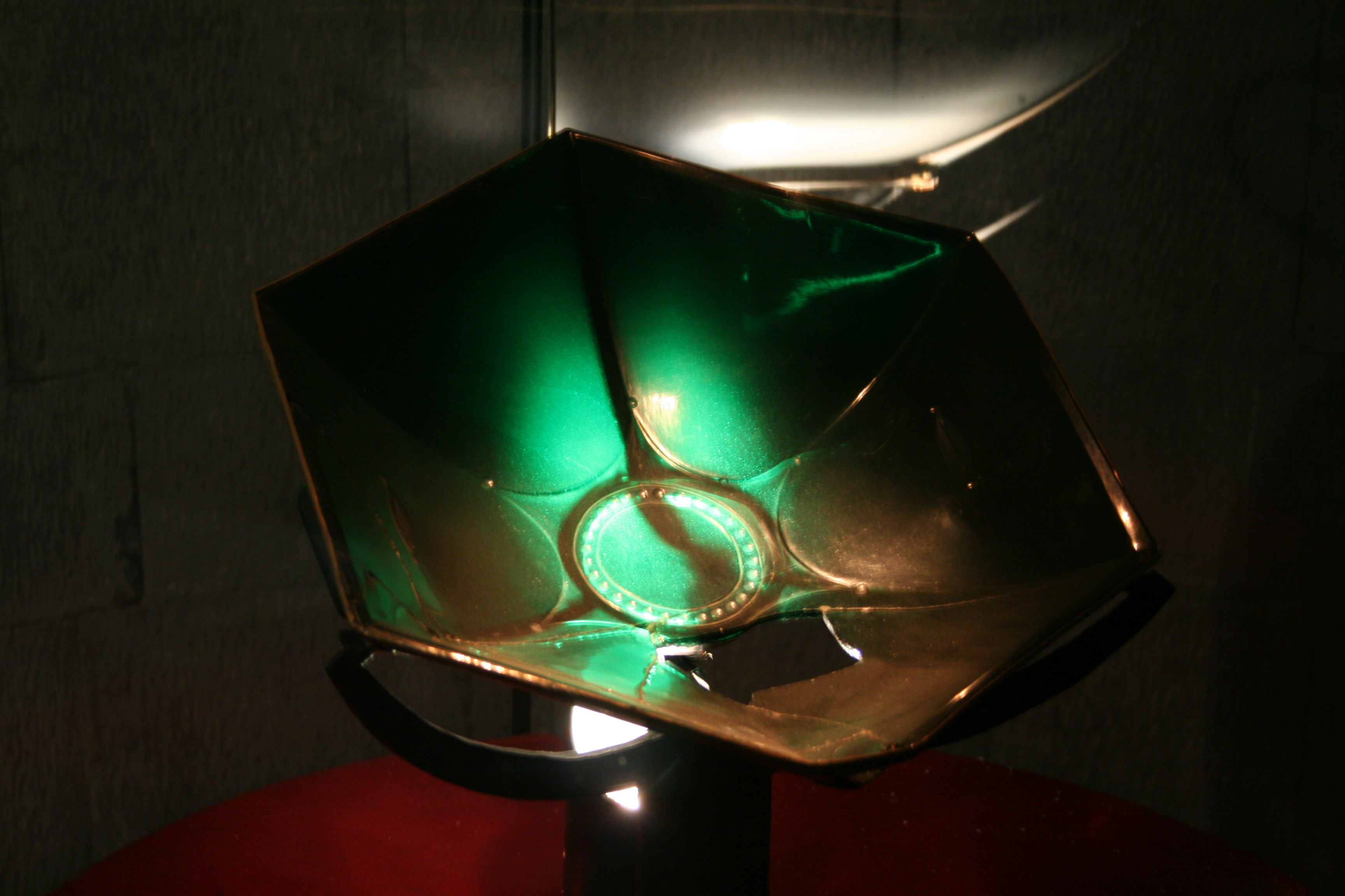 As a part of the relics of the Holy Chalice, the Sacro Catino is a plate, now in the cathedral of St. Lawrence in Genoa. This plate was supposed to be made of emerald and have been offered by the Queen of Sheba to Solomon. It have served at the Last Supper. It is made of green colored crystal. It is hexagonal and it measures fifty centimeters of diameter.